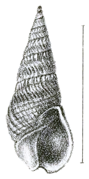 Black and white drawing of an apertural view of a shell of Bullia mozambicensis. The scale bar is probably 1 inch.